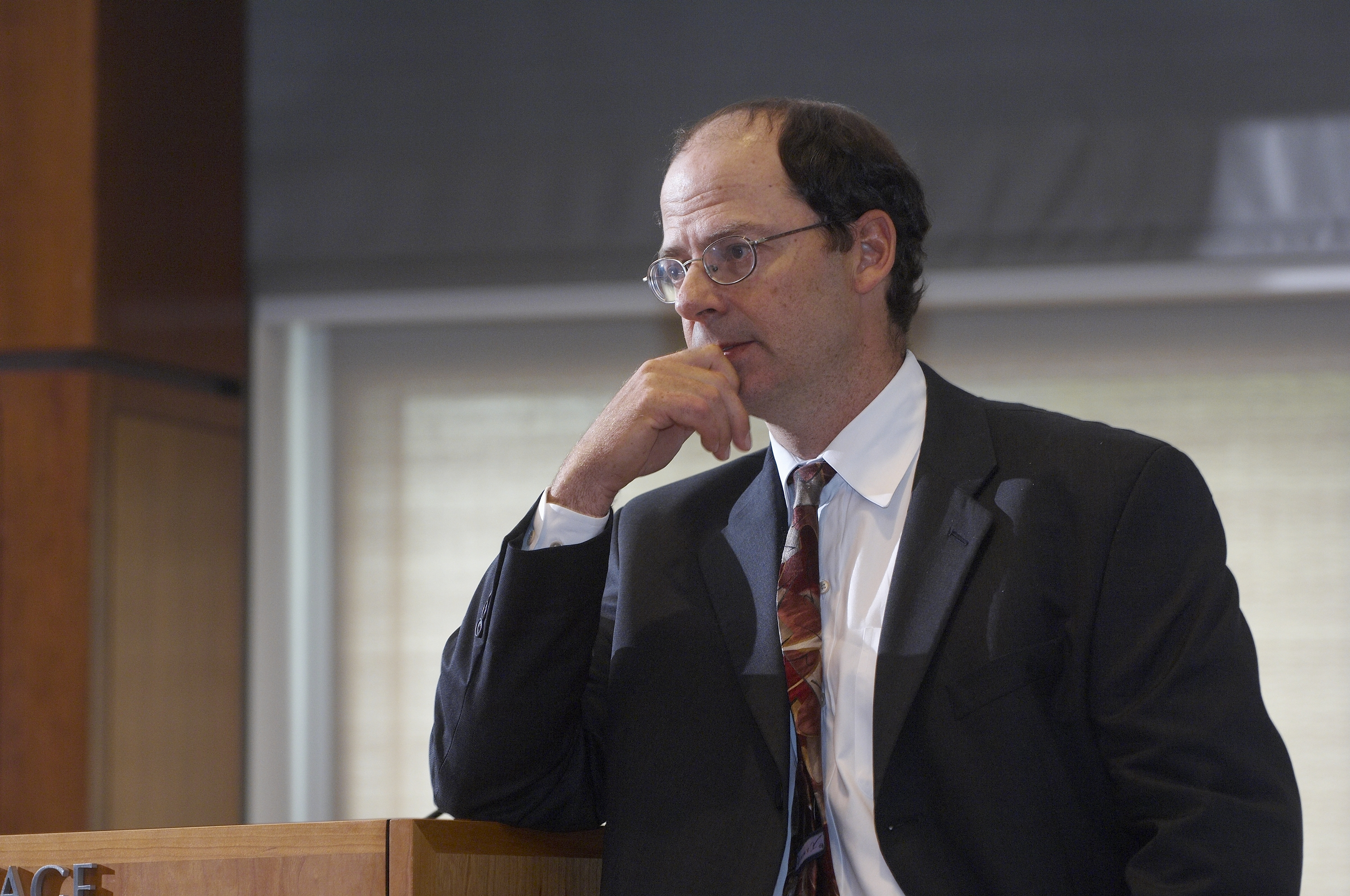 Photograph of William R. Newman, 21 July 2006 at the Alchemy Conference, Chemical Heritage Foundation, Philadelphia, PA.